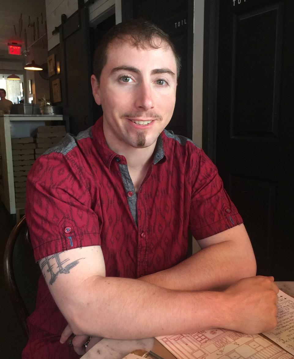 Quinn Marston is an American musician and artist based in New York City. His music was featured on TV shows such as One Tree Hill, Ghost Whisperer, and The Gates. In addition he is a visual artist.